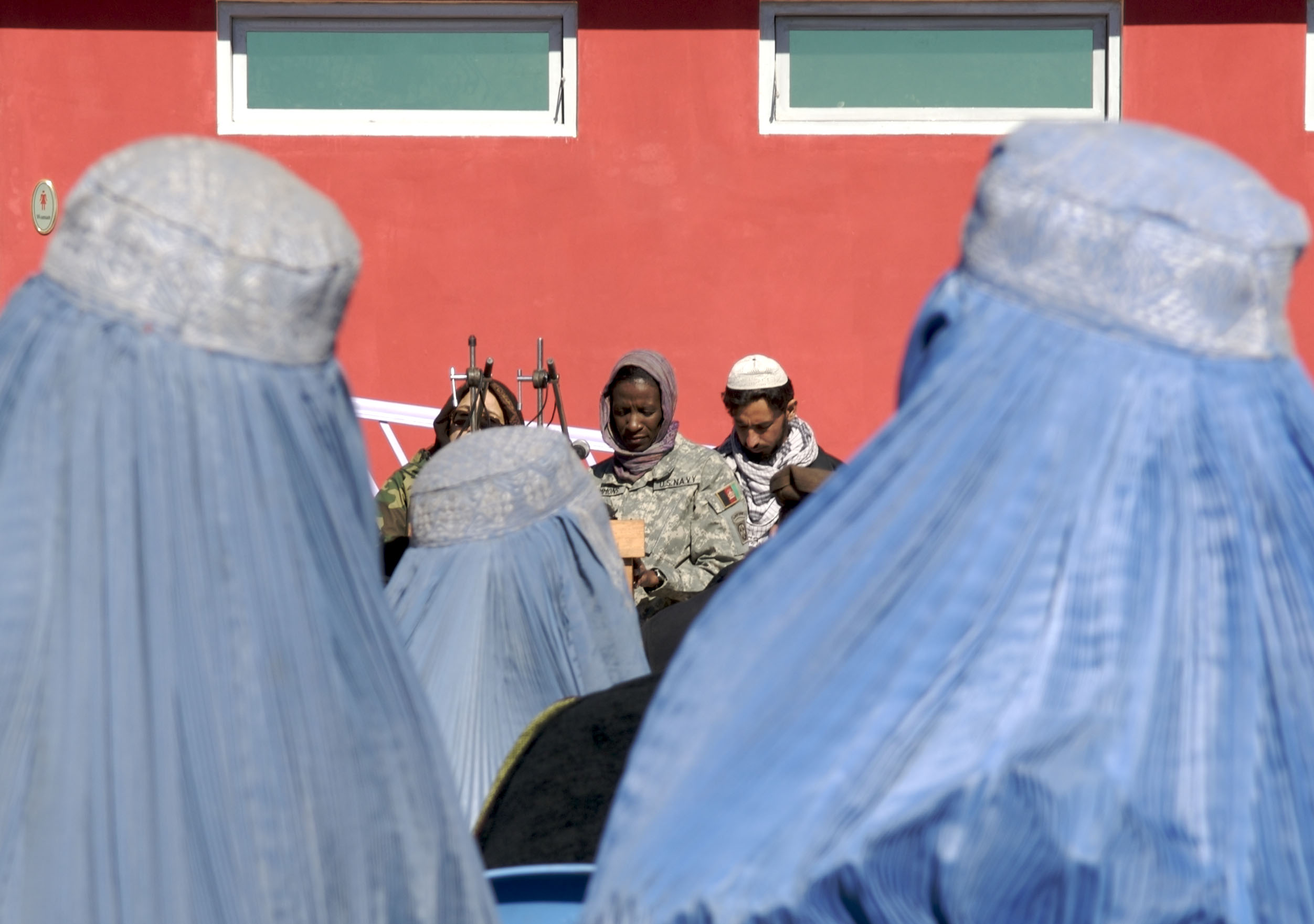 KHOST, Afghanistan (Jan. 23, 2008) Cmdr. Adrienne Simmons, medical provider for Provincial Reconstruction Team Khost and only woman on the team, speaks at the groundbreaking ceremony for a women's mosque and park in downtown Khost City. As the first and only women's mosque in Khost City, this is a symbol of progress for growing women's rights in the Pashtun belt. U.S. Navy photo by Ensign Christopher Weis (Released)